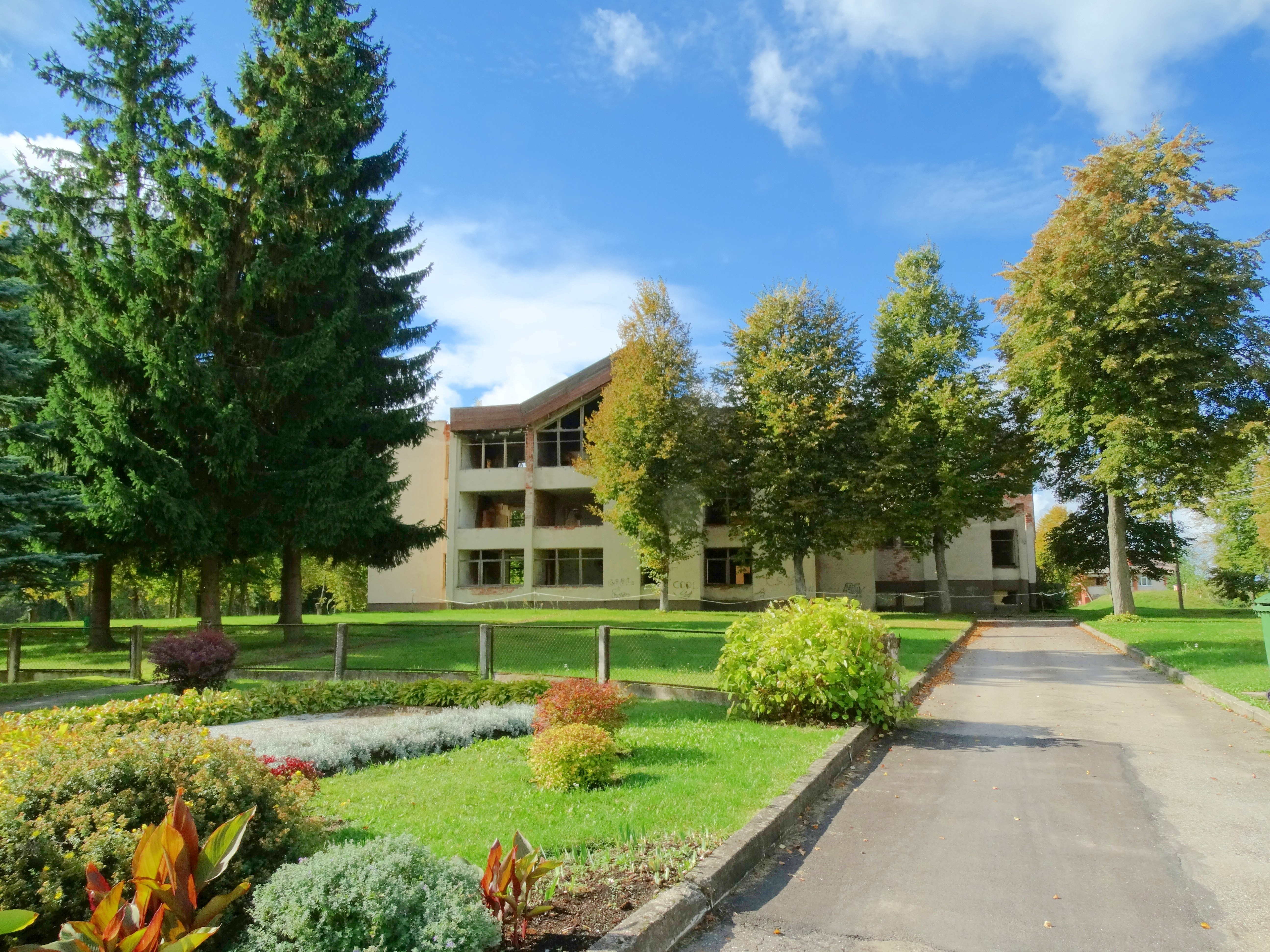 House of culture, Mindūnai, Molėtai district, Lithuania